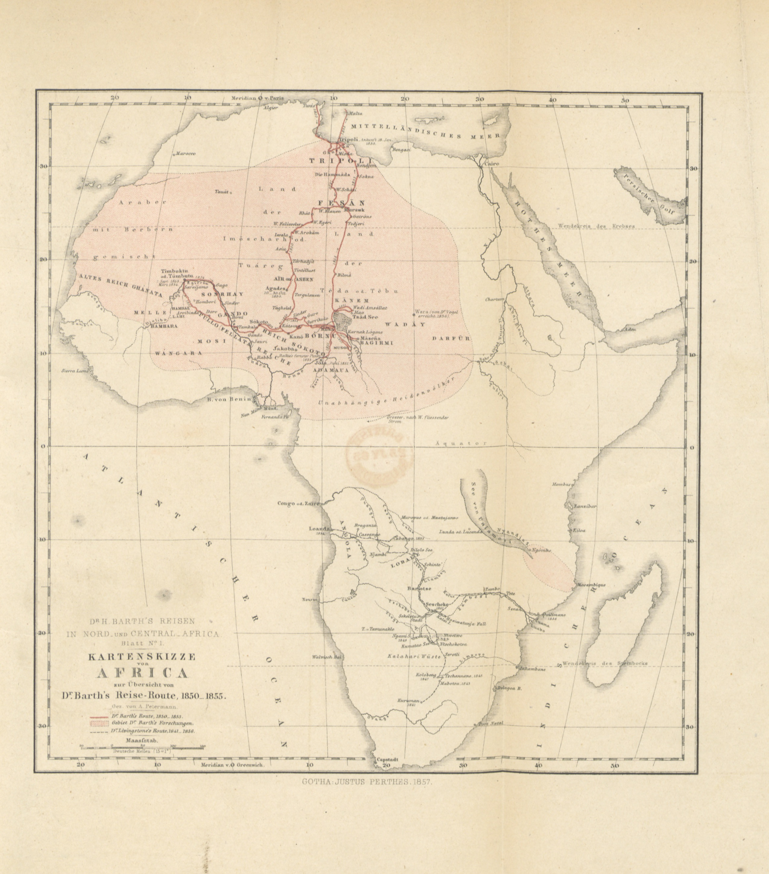 Route of explorer Heinrich Barth across Africa between 1850 and 1855